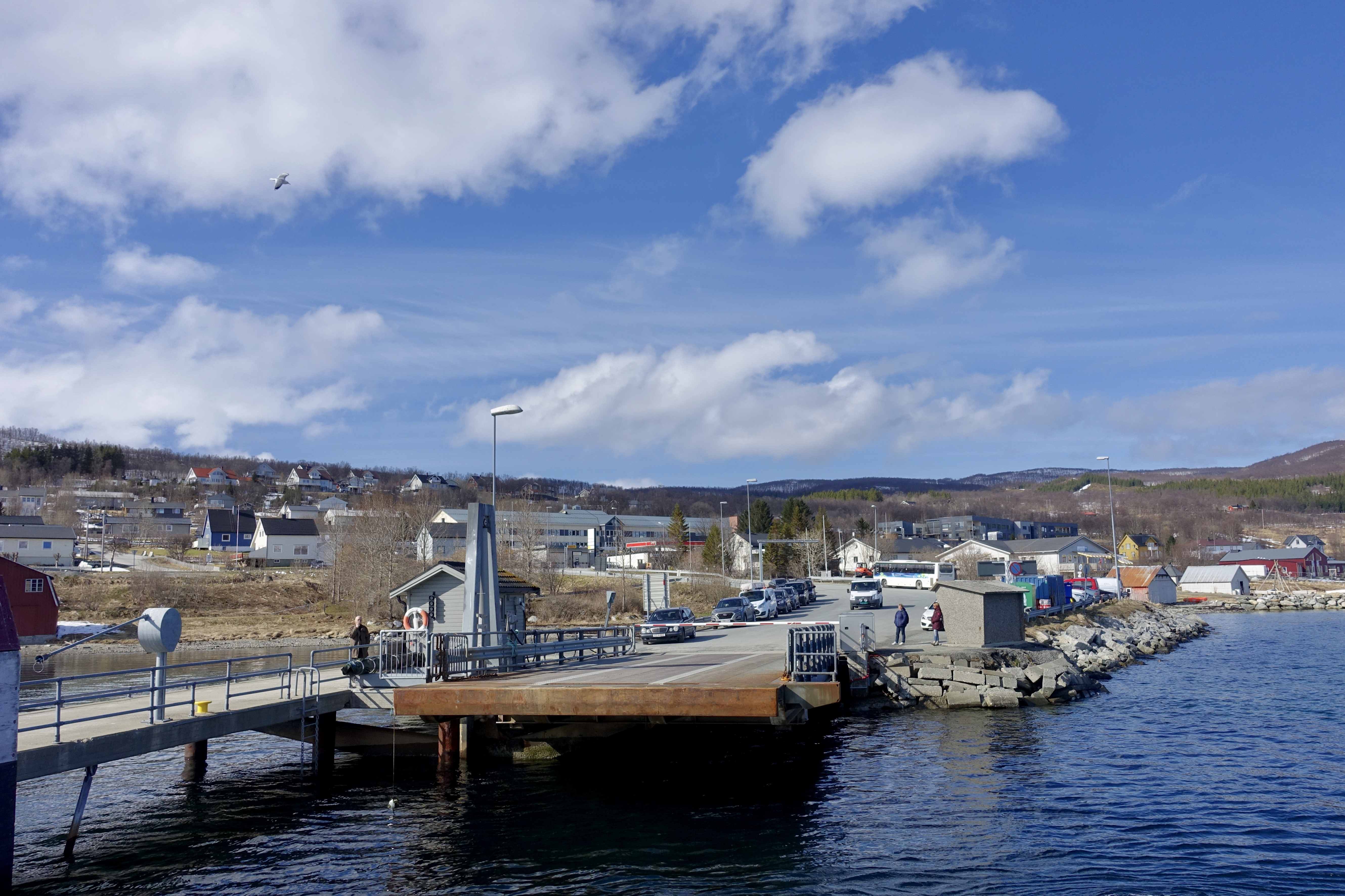 View of Hansnes, the administrative centre of Karlsøy Municipality (Karlsøy kommune) in Troms og Finnmark county, Norway. The village is located on the northeast side of the island of Ringvassøya, along the Langsundet strait. The photo shows the pier (terminal, fergeleie, kaia) for the car ferry service (bilferga) from Hansnes to the nearby islands of Karlsøya, Vannøya, and Reinøya. Photo taken on May 6, 2019, in the spring of Northern Norway.